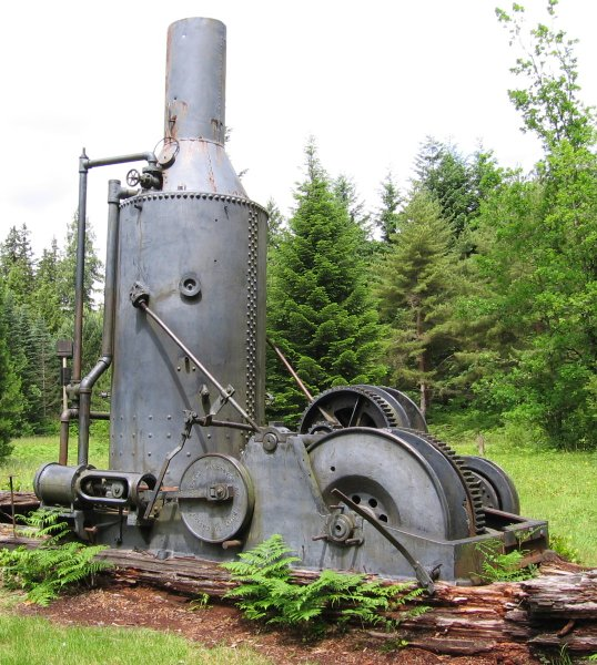 Image of a steam donkey resting at the UBC Malcolm Knapp Research Forest. The side of the engine reads "BUILT BY EMPIRE MFC. CO. LTD VANCOUVER BC."